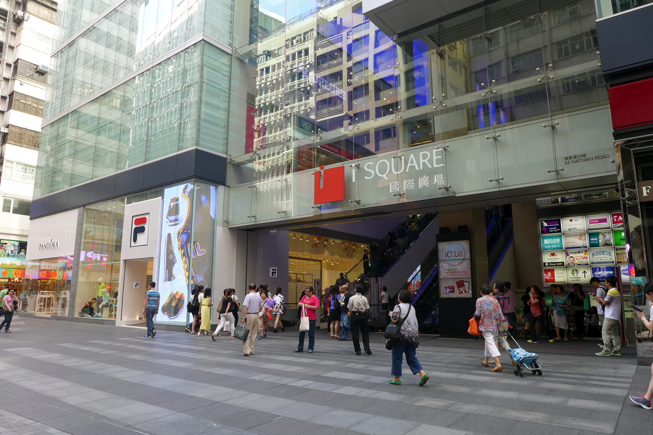 iSQUARE Peking Road Enterance